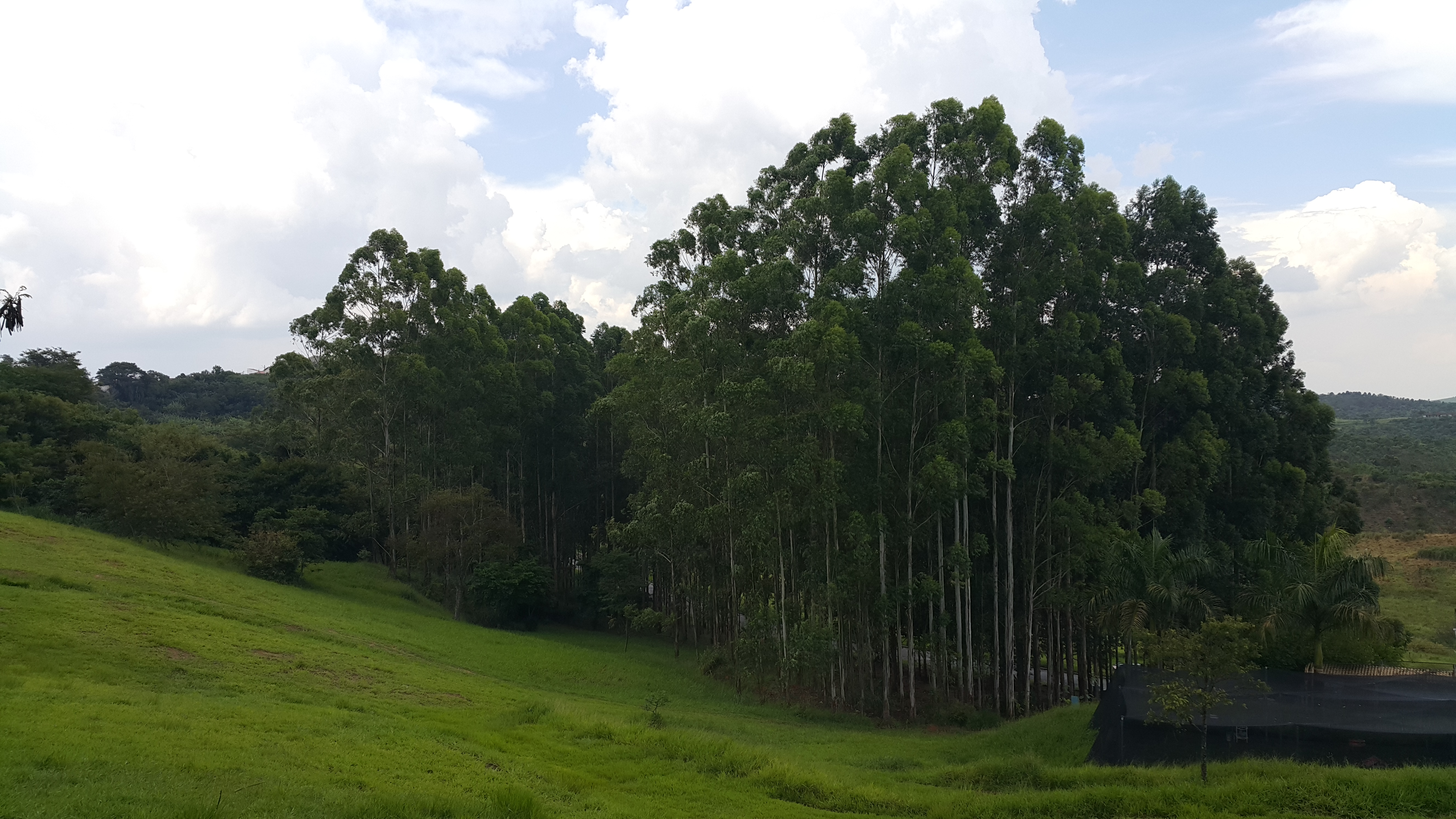 A c. 13-year-old Eucalyptus plantation, in Itaim Park, Taubaté, São Paulo, Brazil.